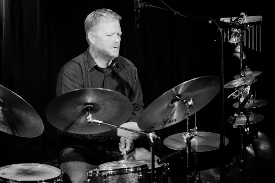 Per Oddvar Johansen with Joshua Redman et alii at Victoria Teater. The concert took place on 24. April 2018 in Oslo and was part of Nasjonal Jazzscene 10 year jubilee celebration. Lineup: Joshua Redman (saxophone), Bugge Wesseltoft (piano), Arild Andersen (double bass), Per Oddvar Johansen (drums) Jan Ole Otnæs (introduction)